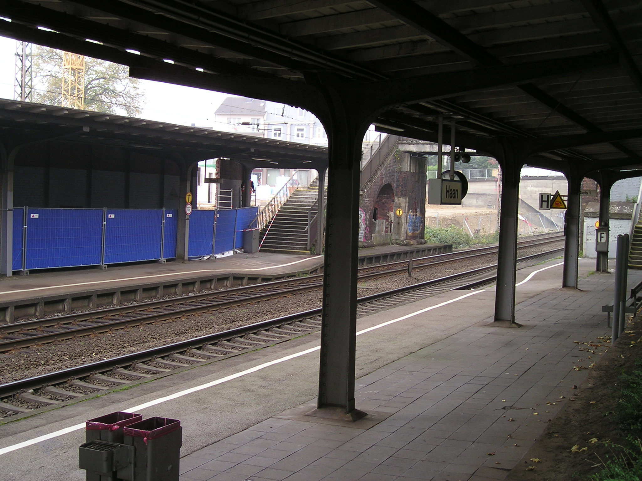 Railway station in Haan Rhineland